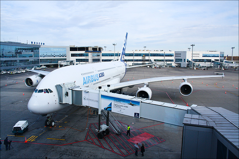 Airbus A380 in Domodedovo International Airport, October 17 2009.